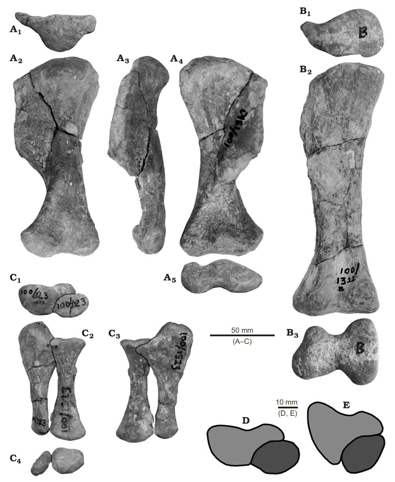 Ankylosaurid dinosaur Pinacosaurus, limb elements from the Alagteeg Formation (Upper Cretaceous) of Alag Teeg, Mongolia. A. Humerus (MPC 100/1310) in proximal (A1), dorsal (A2), lateral (A3), ventral (A4), and distal (A5) views. B. Femur (MPC 100/1322) in proximal (B1), posterior (B2), and distal (B3) views. C. Radius, ulna (MPC 100/1323) in proximal (C1), medial (C2), lateral (C3), and distal (C4) views. Comparison of outlines of proximal ends of ulna (light gray) and radius (dark gray) of MPC 100/1323 (D) and reversed image of MPC 100/1326 (E).